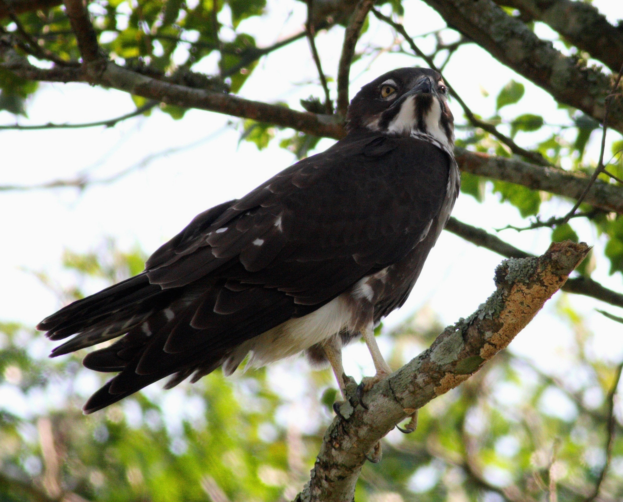 Bat hawk (Macheiramphus alcinus) at Cape Vidal, Northern Natal, South Africa